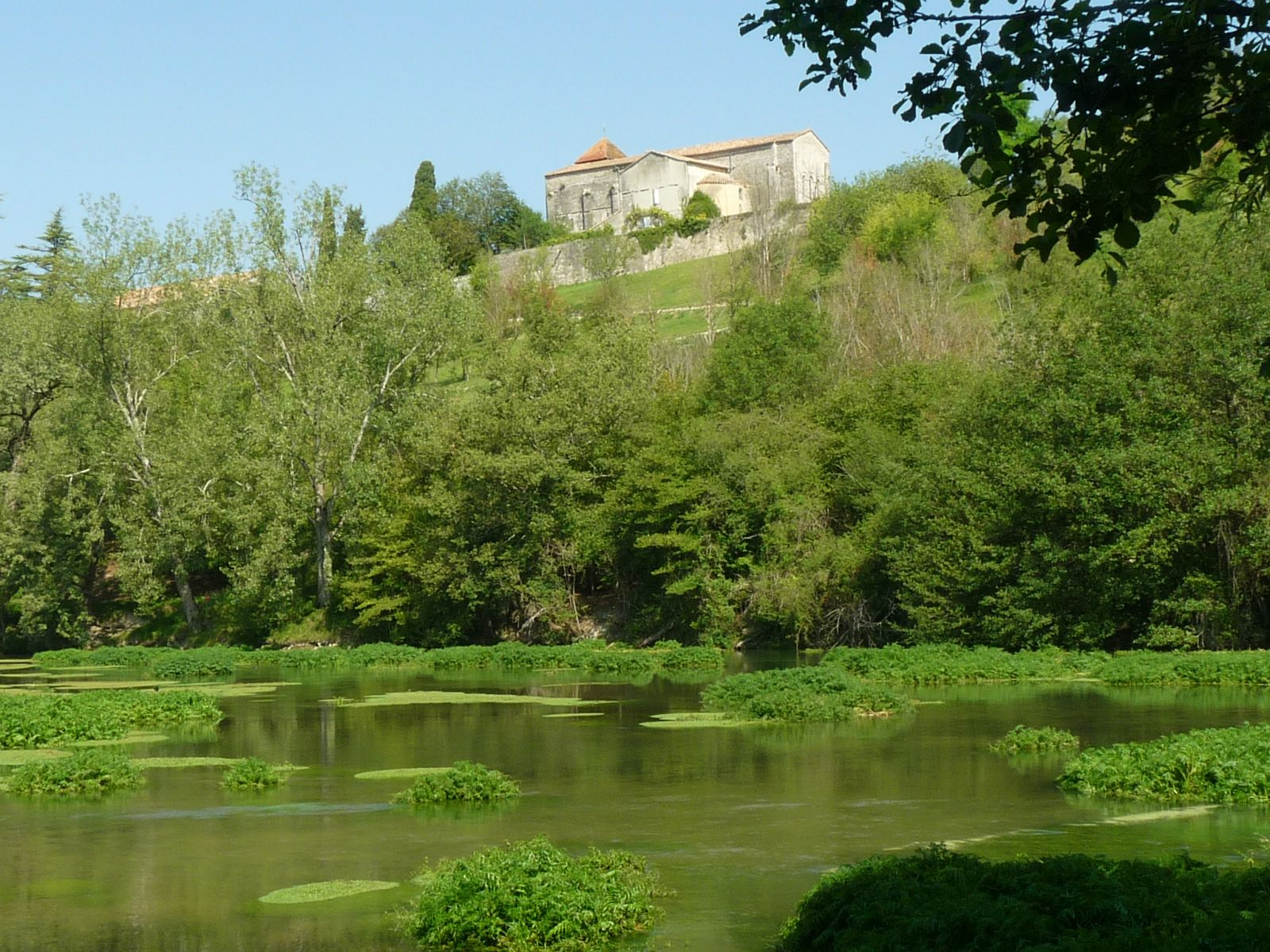 church and springs of Touvre River, Charente, SW France